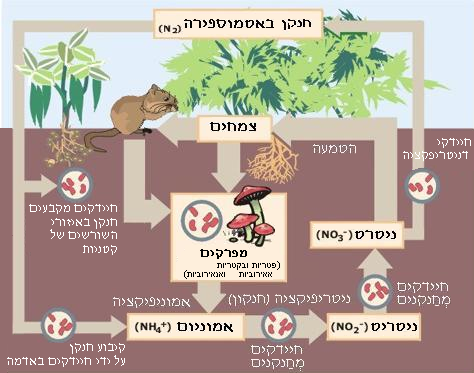 Hebrew version of Nitrogen Cycle